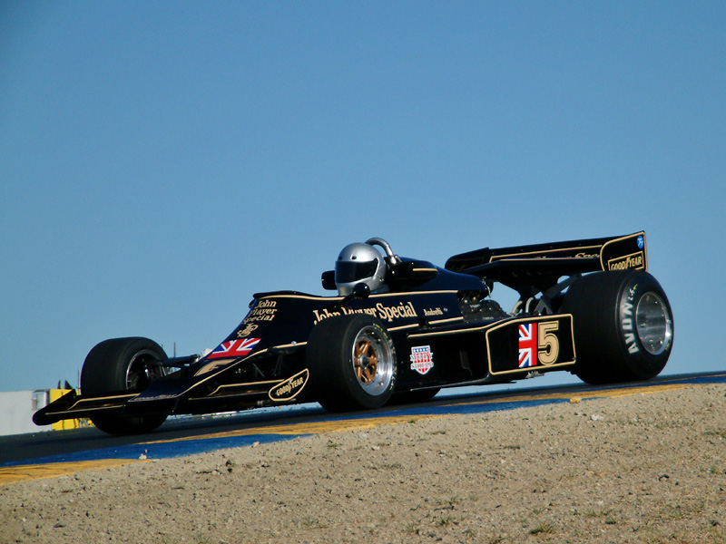 Lotus 77 Formula One car. Photo taken by Luca Varani, August 2005 at Sears Point Circuit, California.